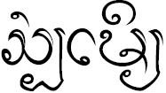 Lanna script – Sop Moei is the southernmost district (Amphoe) of Mae Hong Son Province, northern Thailand.